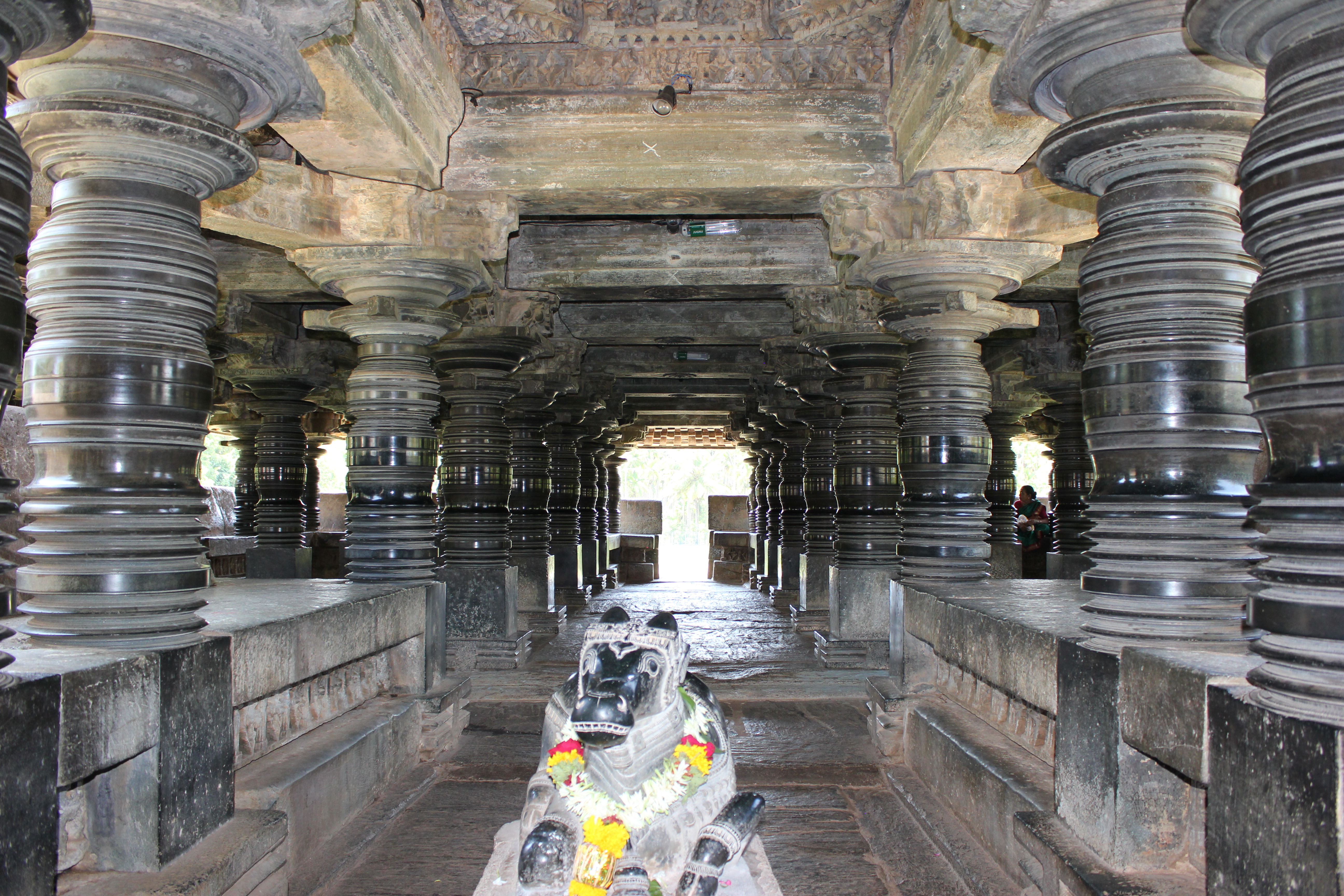 This photograph was taken by self (Dinesh Kannambadi) at the Amrutesvara temple (also spelt Amruteshvara or Amruteshwara) in Amruthapura, Chikkamagaluru district, Karnataka state, India. The temple was built in 1196 C.E. during the rule of the Hoysala King Veera Ballala II.